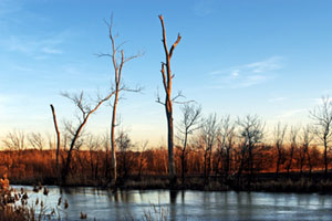 Author: Alistair Siddons . Astral highway 12:35, 10 November 2006 (UTC)